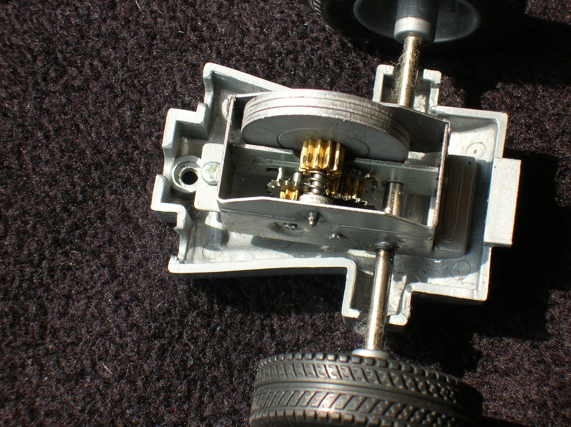 barring motor